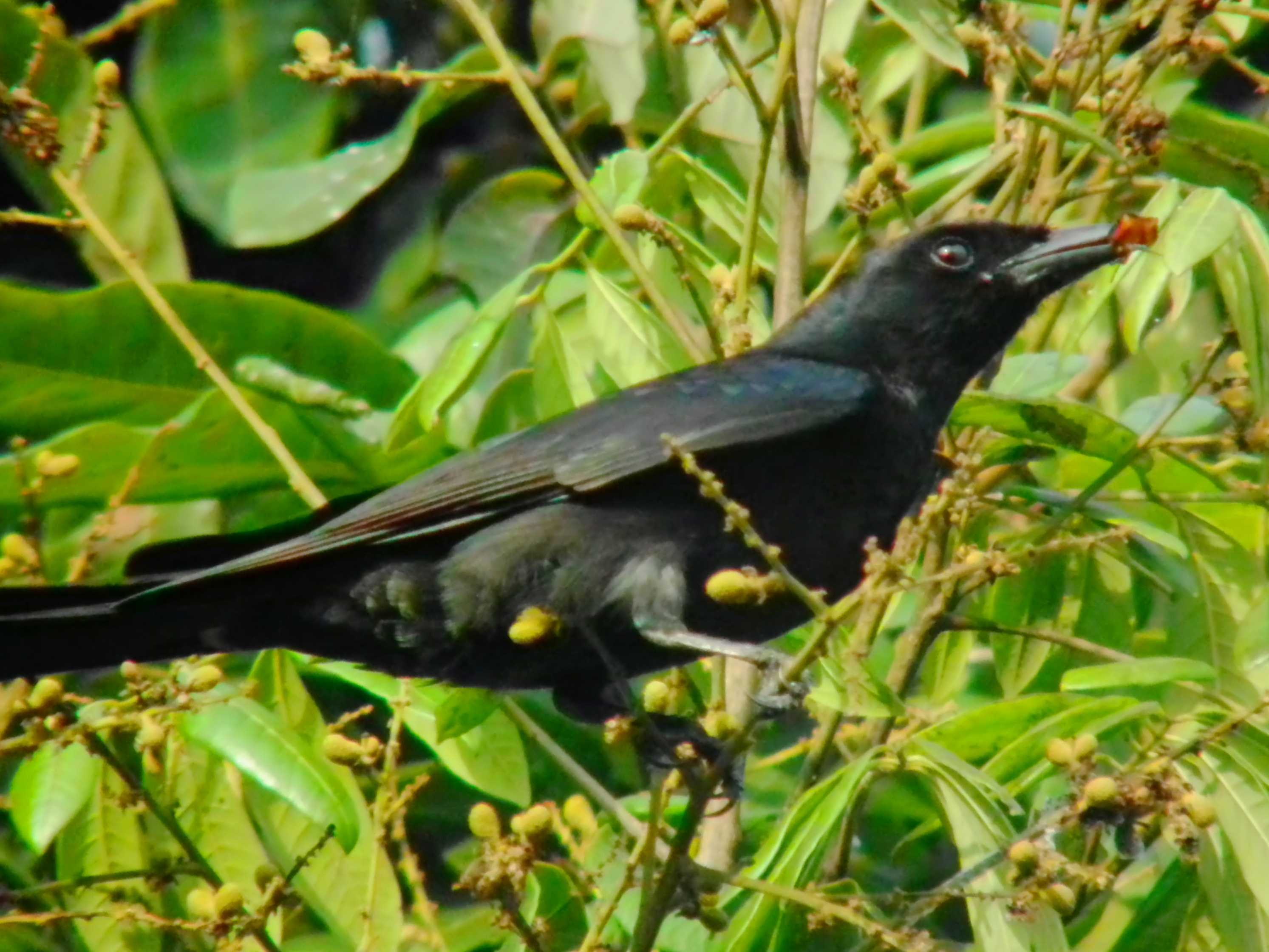 Saw at an outer island of Hong Kong .